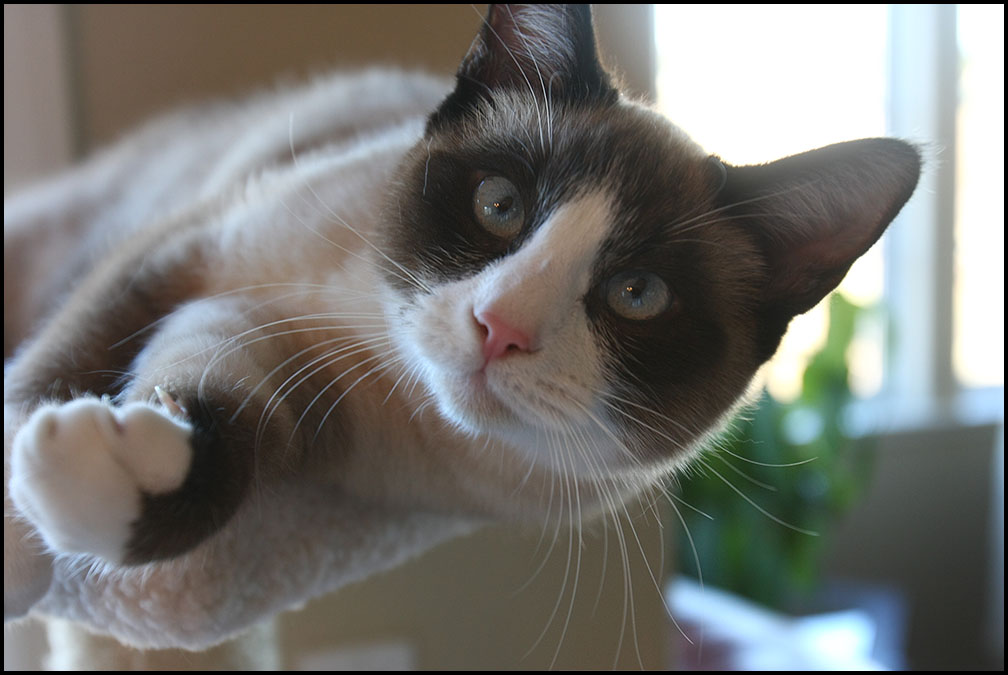 Riley, the Snowshoe kitten